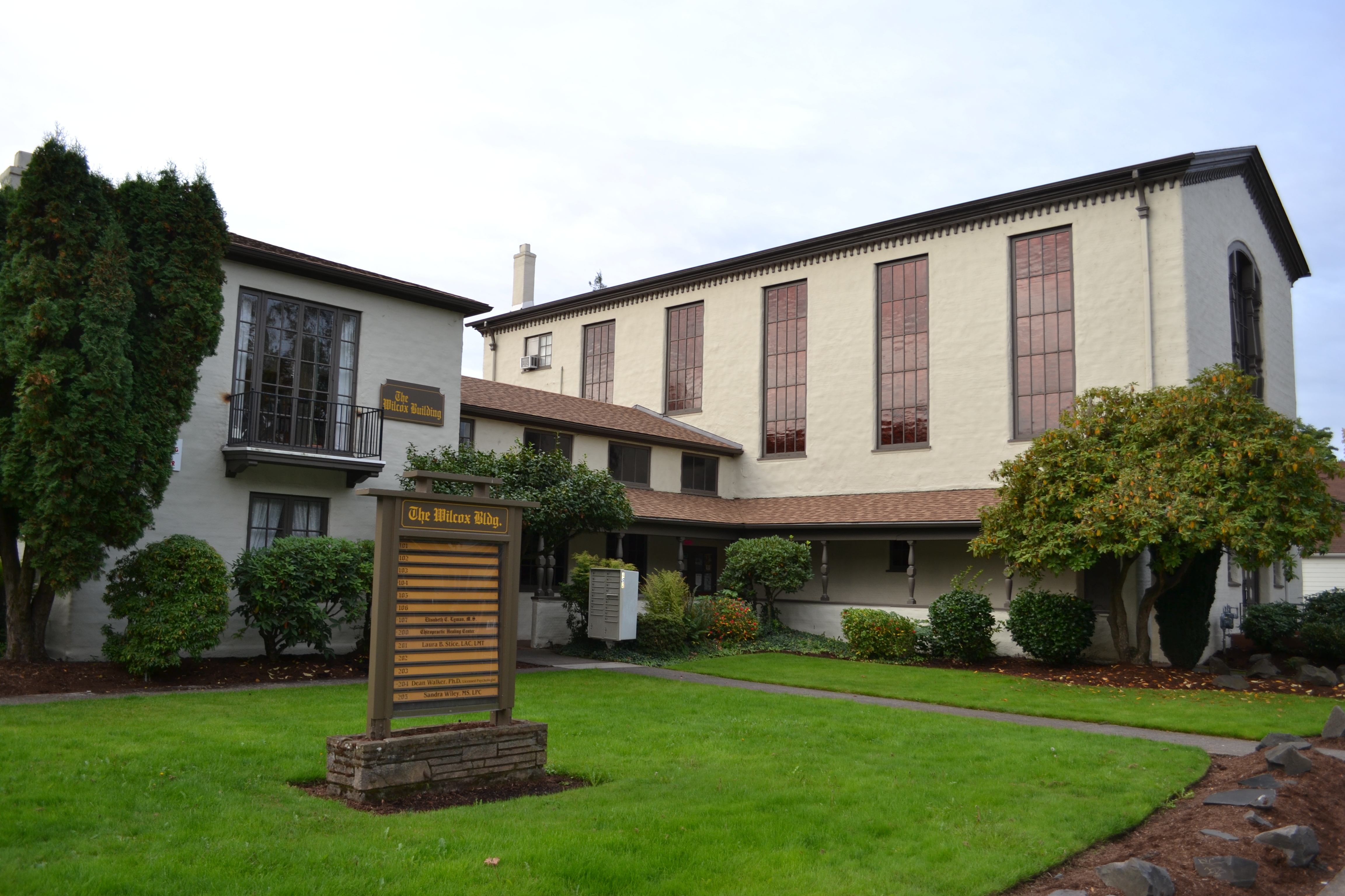 The First Congregational Church building in Eugene, Oregon. The building was later renamed the Willcox building, after architect Walter R. B. Willcox. Note: The two signs visible in this photo use the spelling "Wilcox", and that is a change to the same two signs as visible in 1979 photos linked from the Wikipedia article, as part of the NRHP nomination, but the change appears to have been made in error. The April 21, 1947 Oregonian newspaper obituary for Mr. Willcox uses a two-L spelling, and a memorial sculpture of Mr. Willcox at the University of Oregon (where he was a longtime professor) is identified with the spelling "Willcox".